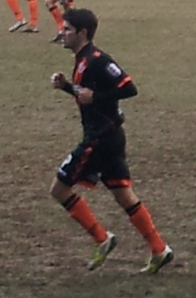 Ryann Flynn playing for Sheffield United on 29 March 2013.